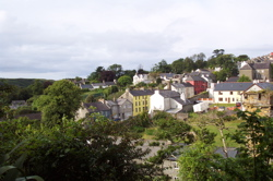 The picture was taken by me, July, 2004